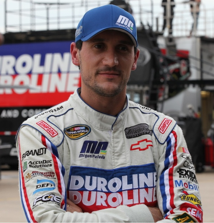 NASCAR Camping World Truck Series driver Miguel Paludo in the garage at Texas Motor Speedway during practice.